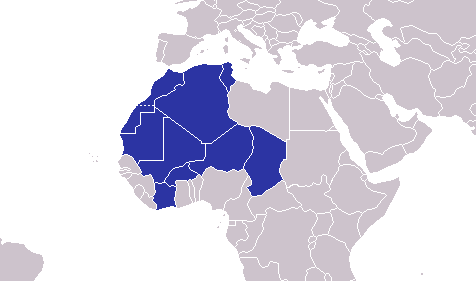 Countries affected by Insurgency in the Maghreb (2002–present) from Image:Maghreb.PNG